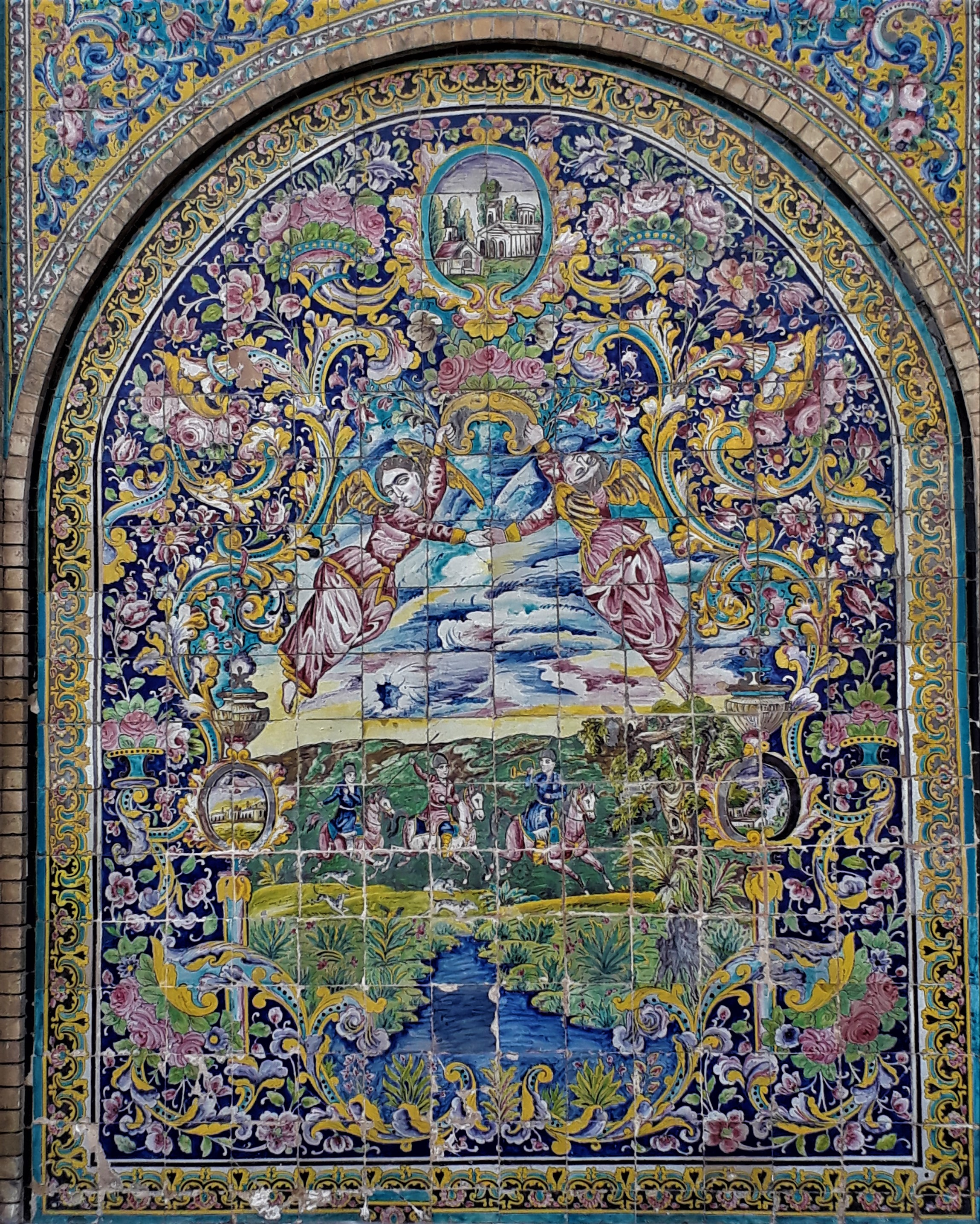 Wall panel haft-rang tiles from Golestan palace, Tehran